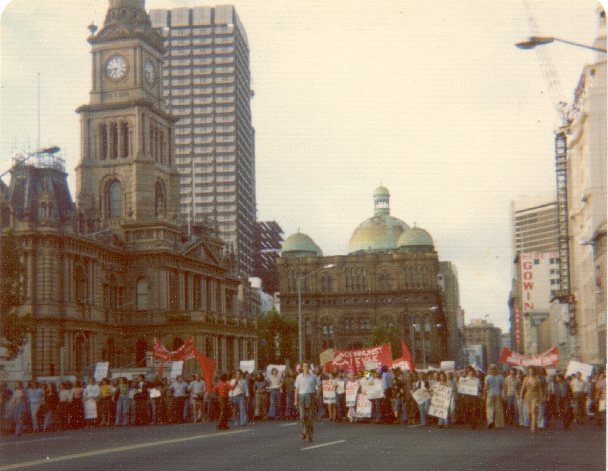 Spontaneous protest occupying the width of George street, Sydney, outside the Sydney Town Hall, about 6.45 p.m. on 11 November, 1975, the afternoon of the dismissal of the Whitlam Labor Government by the Govenor-General, Sir John Kerr.